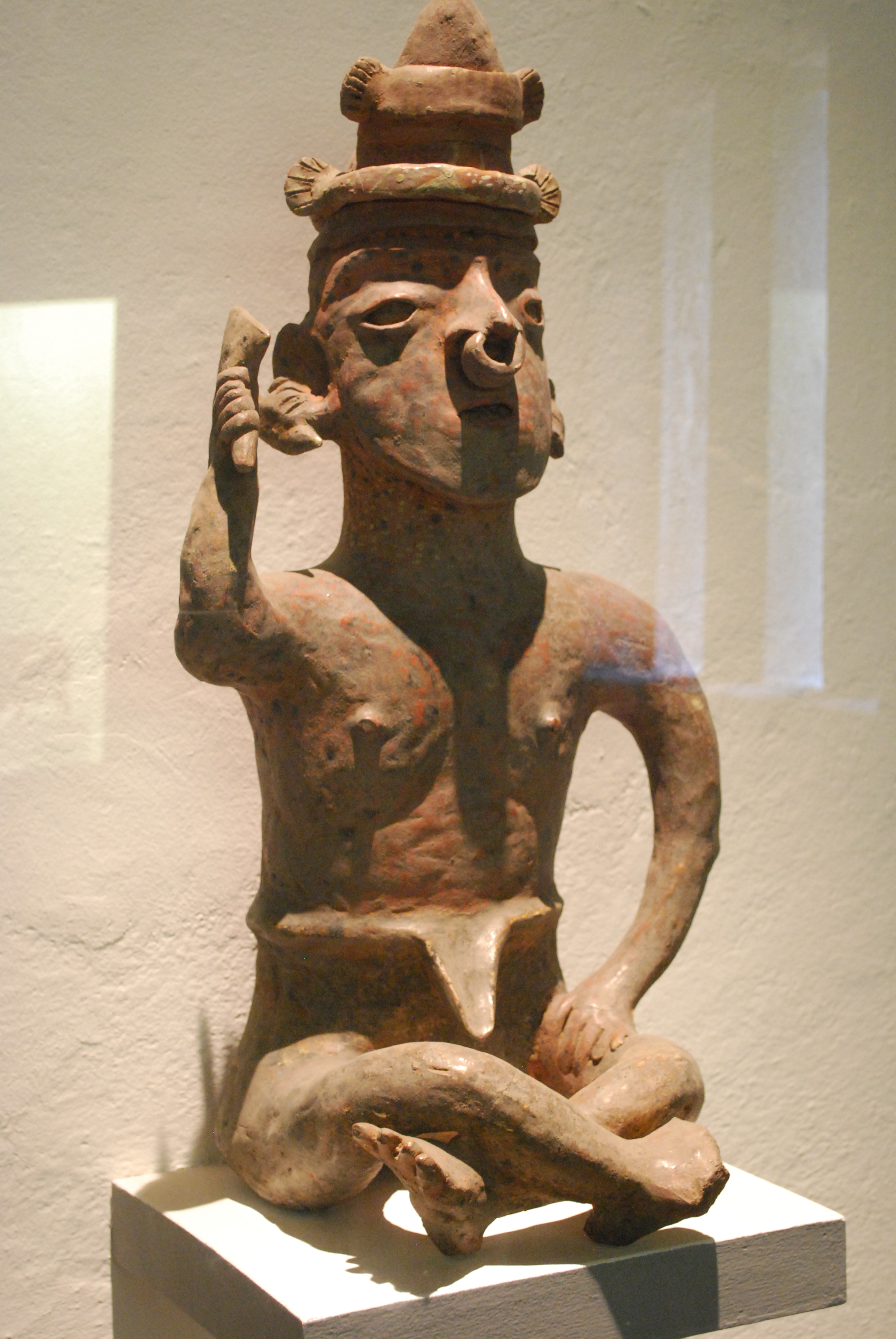 Ceramic sculpture of seated figure at the Anahuacalli Museum in Mexico City